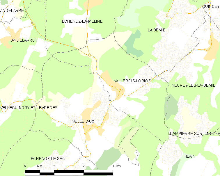 Map of French municipality